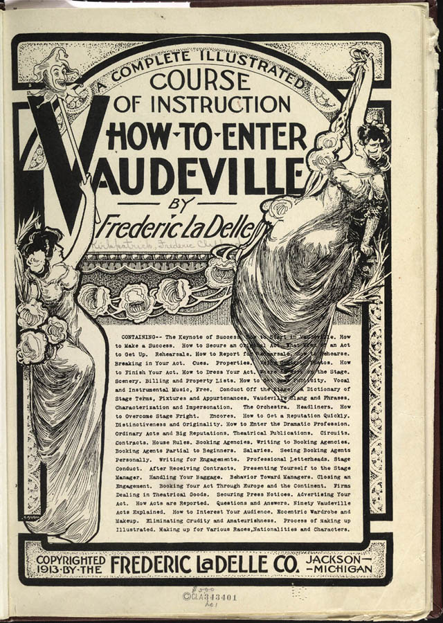 Cover of How to Enter Vaudeville by Frederic La Delle (Frederick Clifford Kirkpatrick). Copyrighted 1913 Frederic La Delle Co., Jackson, Michigan. Published by Excelsior Printing Company, 1913. Library of Congress serial number appears to be CLA343401. Tagline: "A complete illustrated course of instruction"